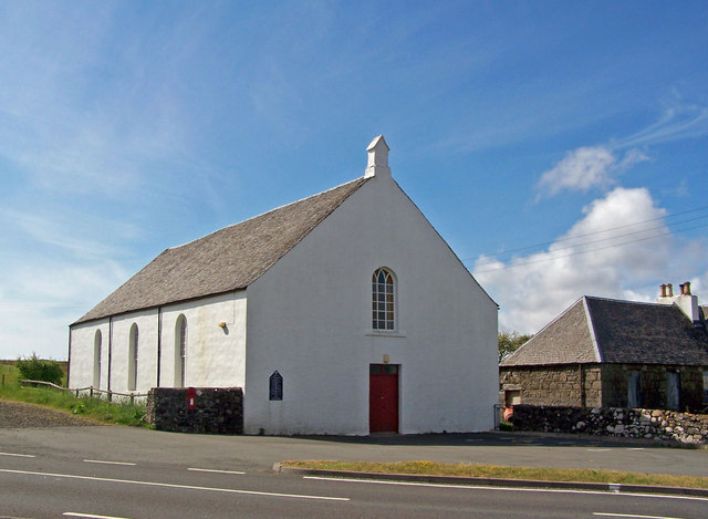 Free Church of Scotland Located on the junction between the A863 and the B884 (to Glendale) in Lonmore township.